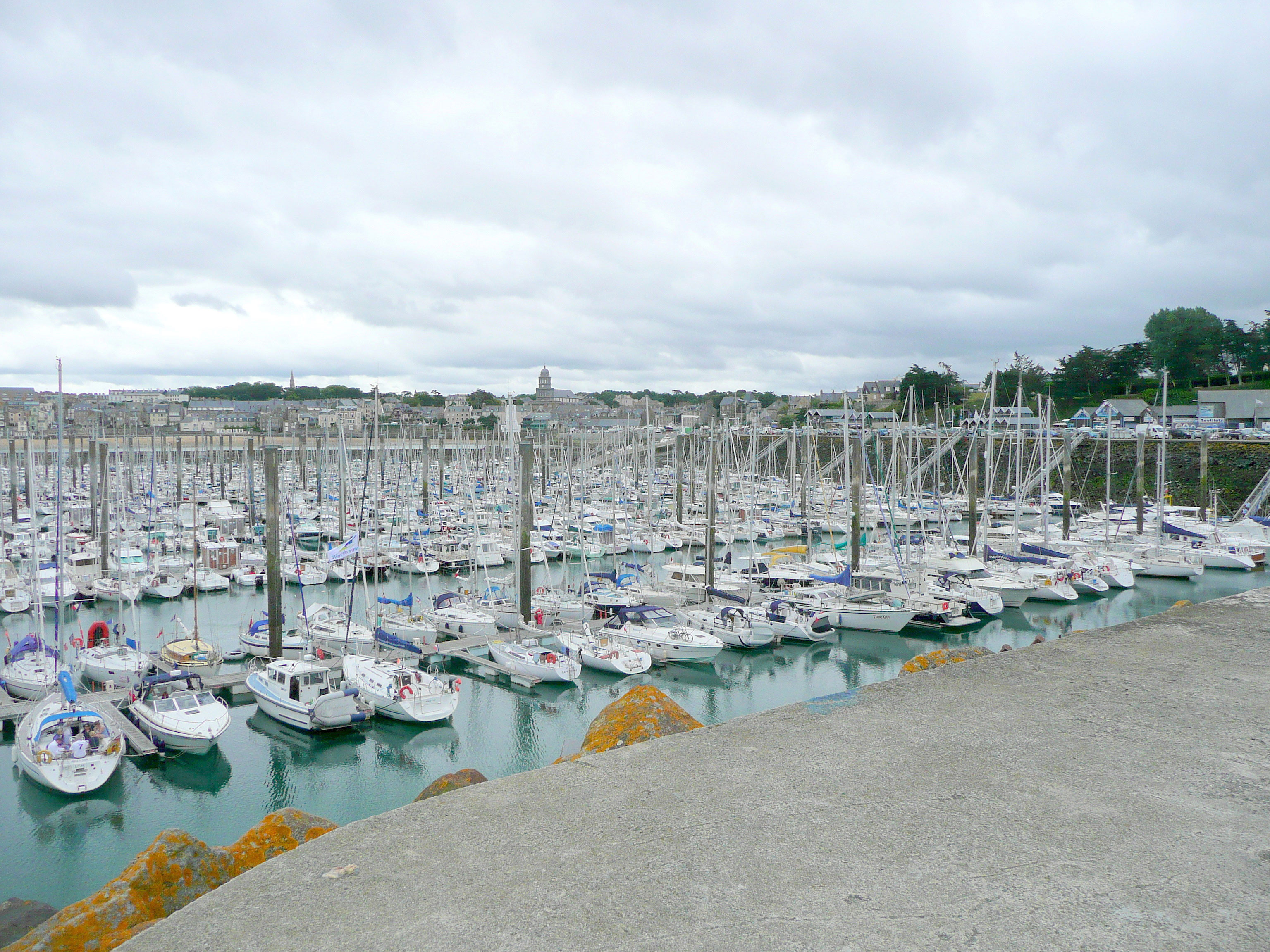 Port of Sablons , Saint-Malo Brittany, France